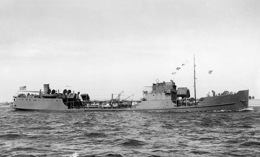 MS Veedol II (then USS Guyandot and finally FS Lac Noir) photographed by the U.S. Coast Guard departing an American port.